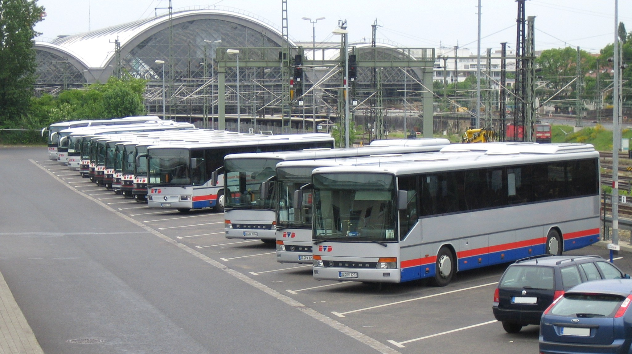 Buses of the Dresden Regional Transport at a depot near Dresden Central Station